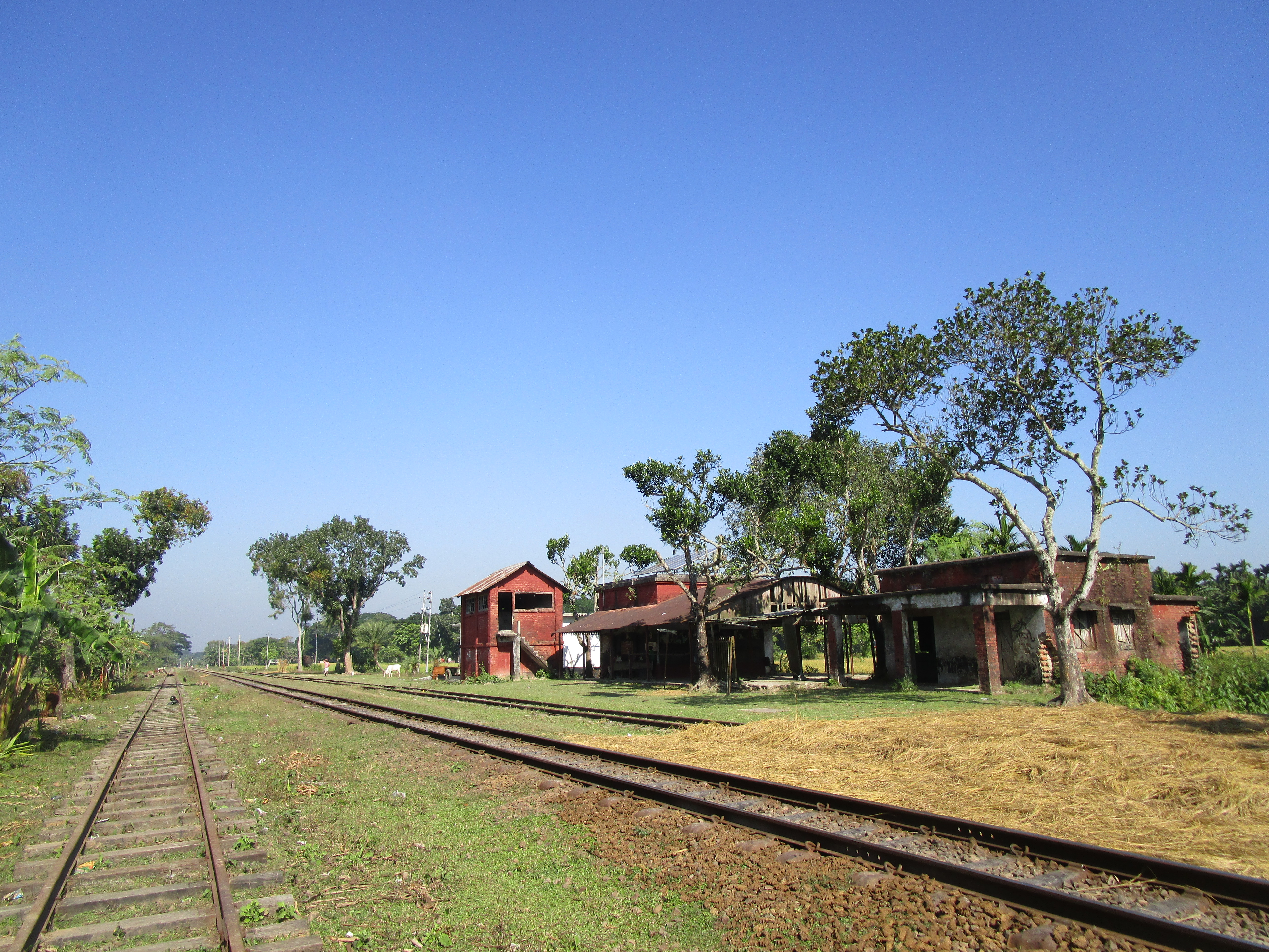 A view of Sutiakhali Railway Station at Mymensingh Sadar Upazila.